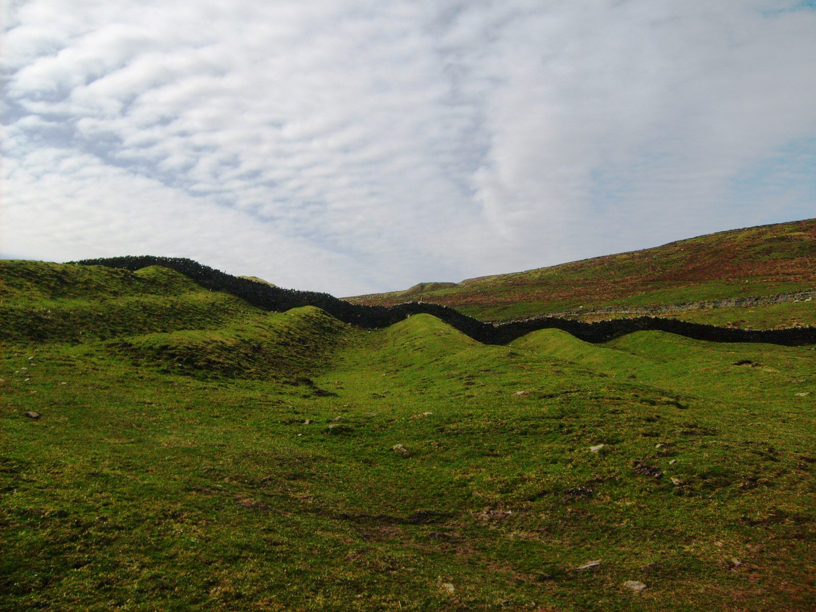 Lumps and bumps of Whitley Castle. View of the defensive ramparts on the North side of the Roman Fort of Whitley Castle originally called Epiacium. Isaac's Tea Trail passes around these impressive Roman remains. Grid Square NY6948.Image published with CC License on .uk by Roger Morris on 19 April 2010.